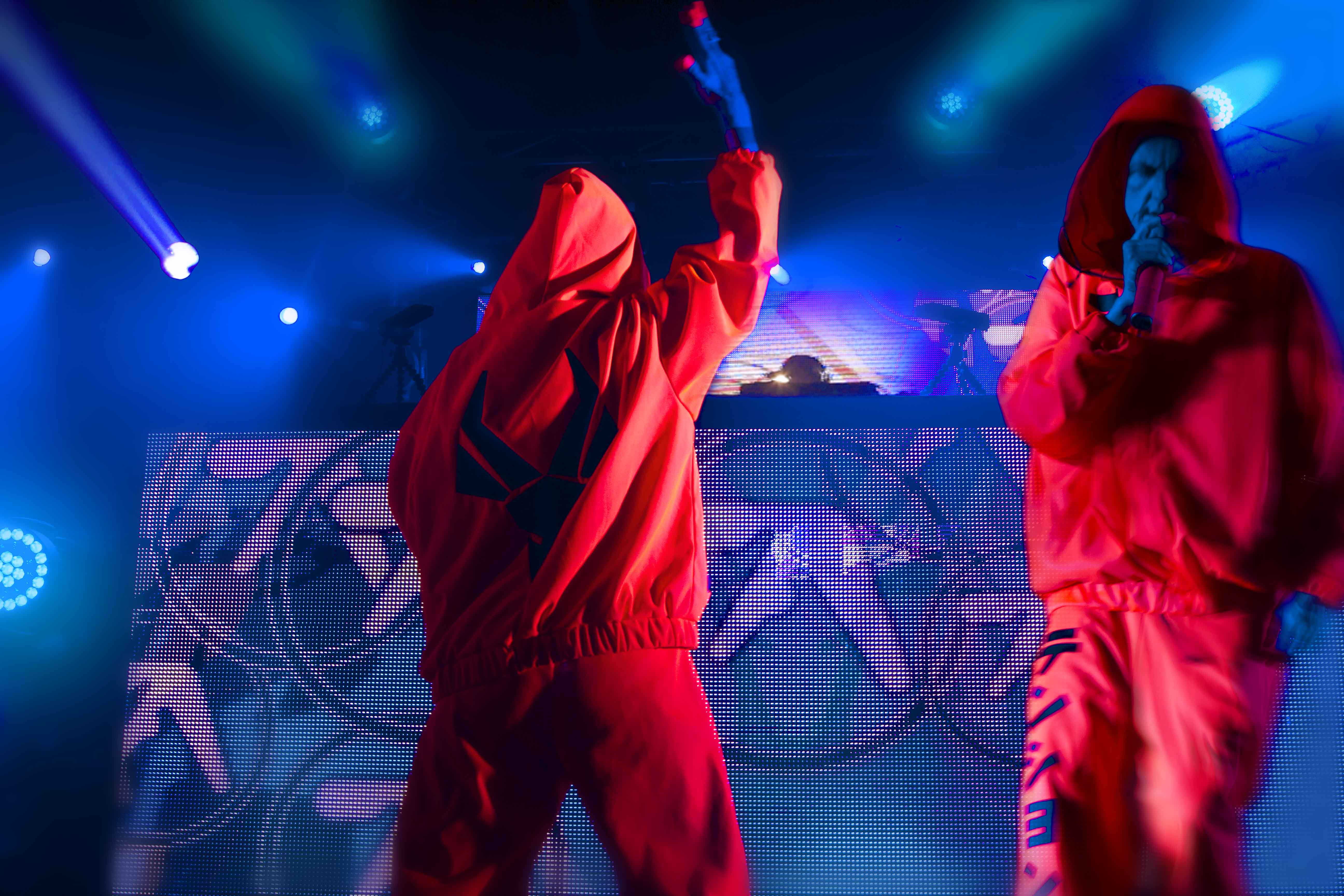 Die Antwoord members Yo-Landi Vi$$er (left, facing away) and Ninja